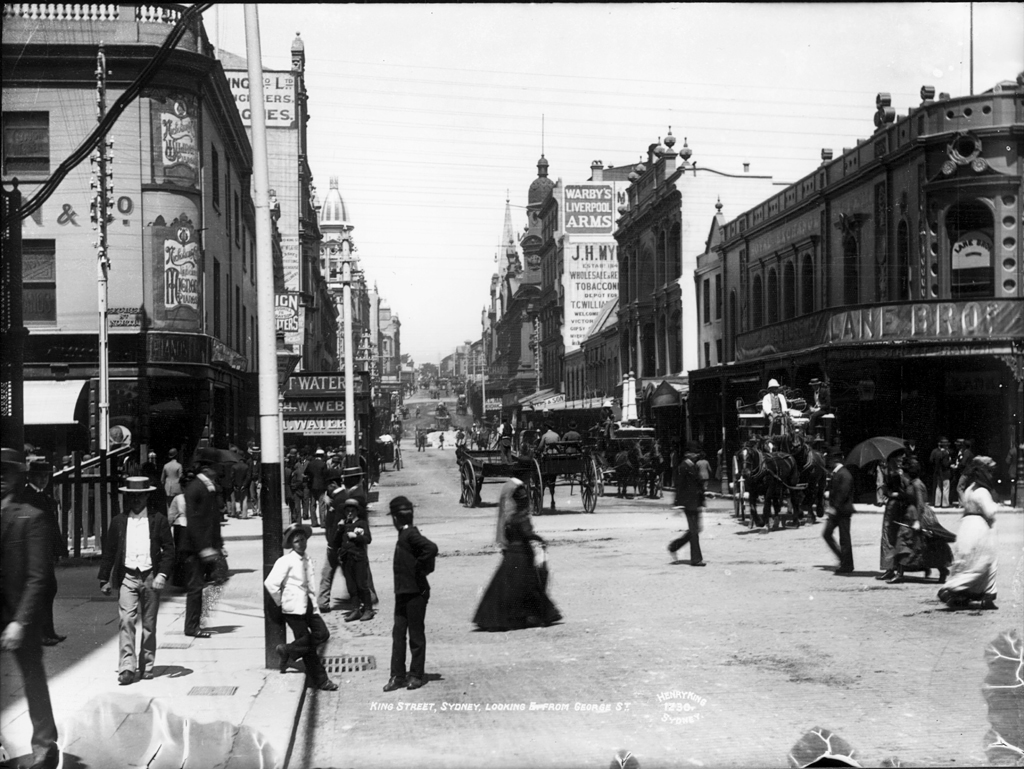 'Sydney City' Pictures from The Powerhouse Museum This files was posted to Flickr by The Powerhouse Museum (See their website for further information). Many thanks to the Powerhouse Museum for helping release this wonderful material. This tag does not indicate the copyright status of the attached work. A normal copyright tag is still required. See Commons:Licensing for more information.